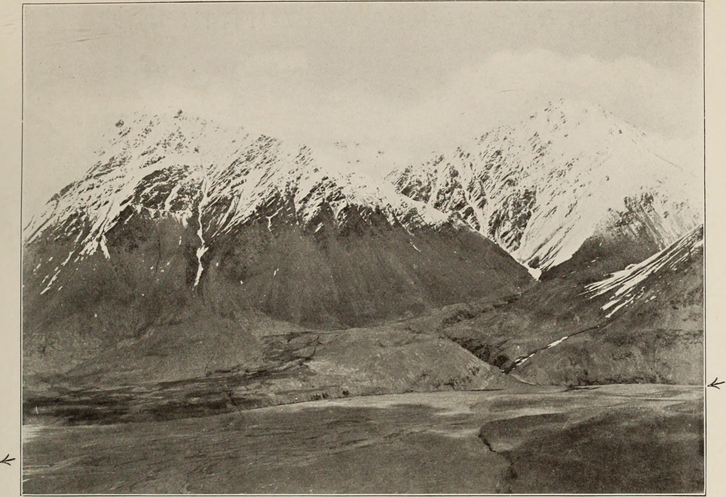 Title: Ruins of desert Cathay : personal narrative of explorations in Central Asia and westernmost China Year: 1912 (1910s) Authors: Stein, Aurel, Sir, 1862-1943 Archaeological Survey of India Subjects: Publisher: London : Macmillan Text Appearing Before Image: thy Khan Sahib Pir Bakhsh,who with the official status of Hospital Assistant of Mastujcombines the functions of adviser and guide to the Governorof the territory (Fig. i8). Twelve years of continuousresidence in these mountains have made this pleasantPunjabi familiar with almost every one of the thousandodd households which make up the population of theMastuj or Khushwakte chiefship, as it is generally knownfrom the race of its hereditary rulers. So my ride to Mastuj on May nth gave ample chancefor collecting useful local information. The morning hourswere spent in taking copies and photographs of a Sanskritinscription and a rock-carved Stupa representation closelyresembling those of Pakhturinidini. The large boulderon which both are engraved was brought to light in afield near Charrun only some eight years ago. Yet thelingering recollection of an earlier worship was still strongenough to induce the villagers, good Muhammadans asthey have been for centuries, to treat the infidel rock- Text Appearing After Image: l6. OXUS VALLEY NEAR SARHAT), WITH RANGE TOWARDS GREAT PAMIR, SEEN FROM KANSIR SIUR. The fields of Sarhad on alluvial terrace above right river bank.